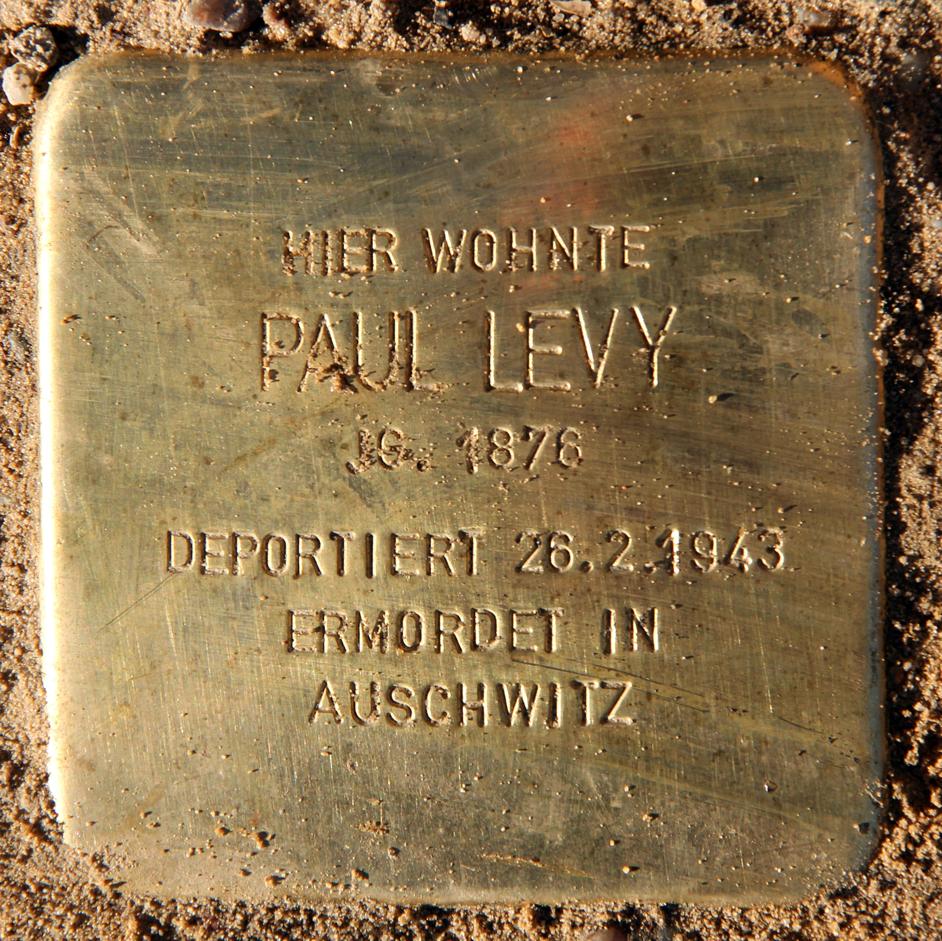 "Stolperstein" (stumbling block), Paul Levy, Albertinenstraße 31, Berlin-Zehlendorf, Germany